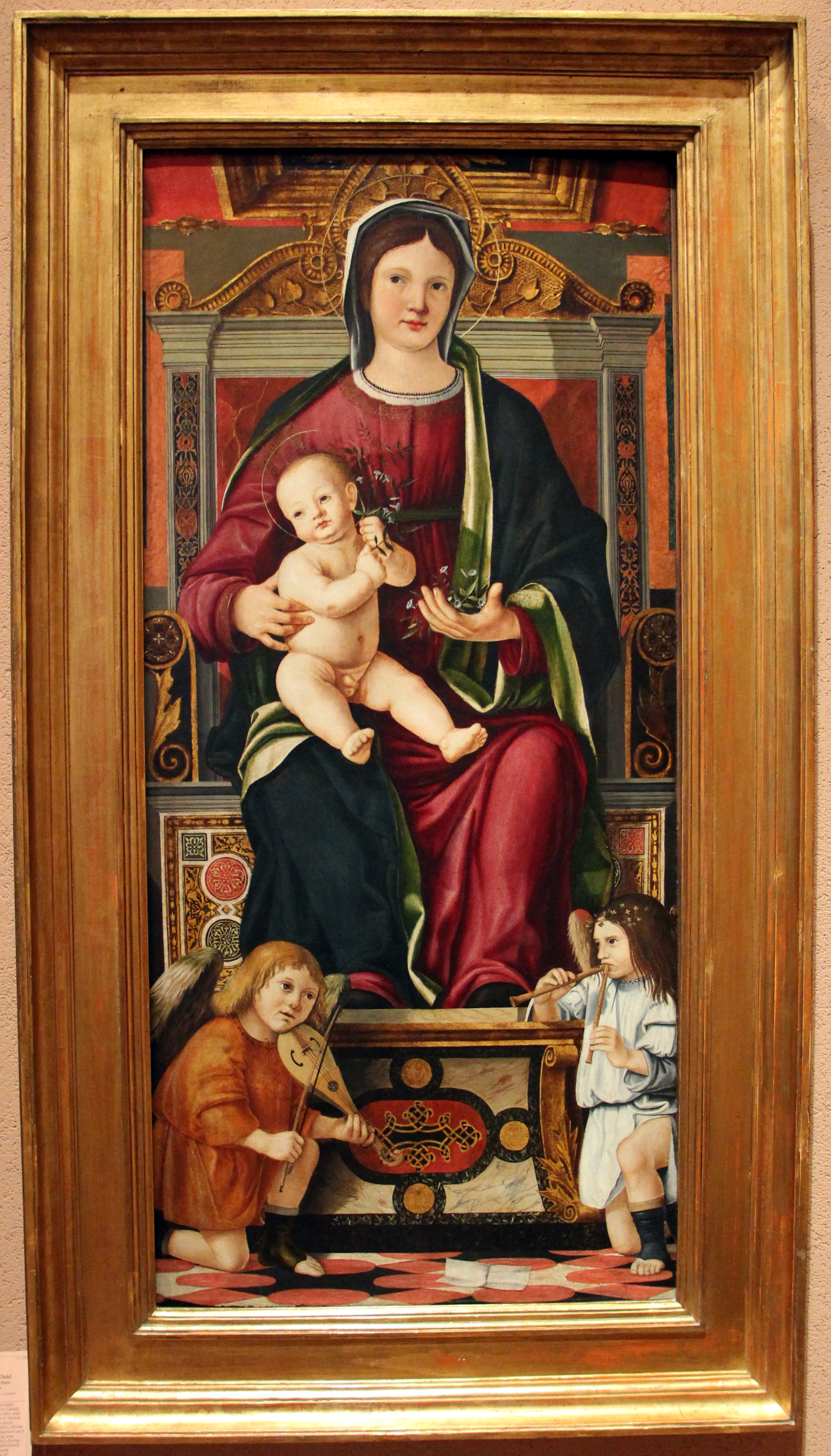 Paintings in the Museo Poldi Pezzoli (Milan)